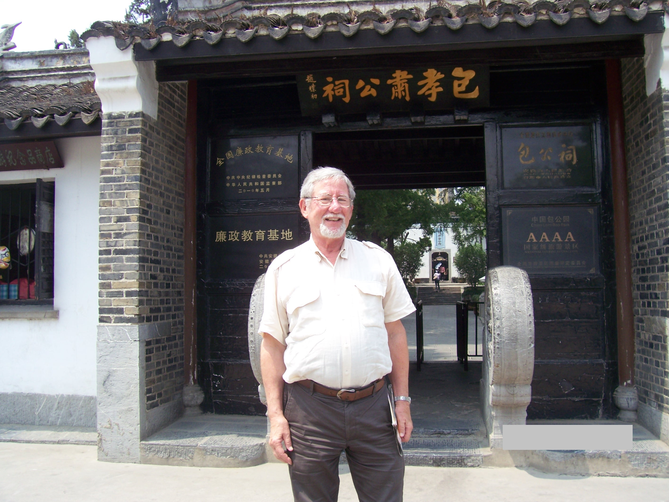 This is a picture of myself, Jonathan Chaves, standing in front of the newly renovated Shrine to Judge Bao, a revered 11th century magistrate, in Hefei, capital of Anhui Province, China.